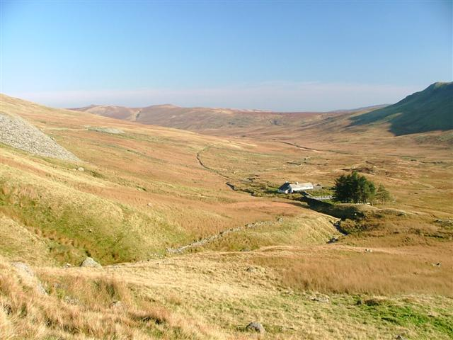 Mosedale Cottage. Recently renovated Mosedale Cottage from a slightly different angle. Mosedale Cottage is now used as a privately owned bothy.